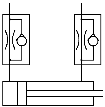 description: Retract resistor check valve application: pneumatic cylinder, piston driven by Compressed air through 2 Retract resistor check valves Author: User:Rainer Bielefeld Drawn with: CAD-System SEE4000